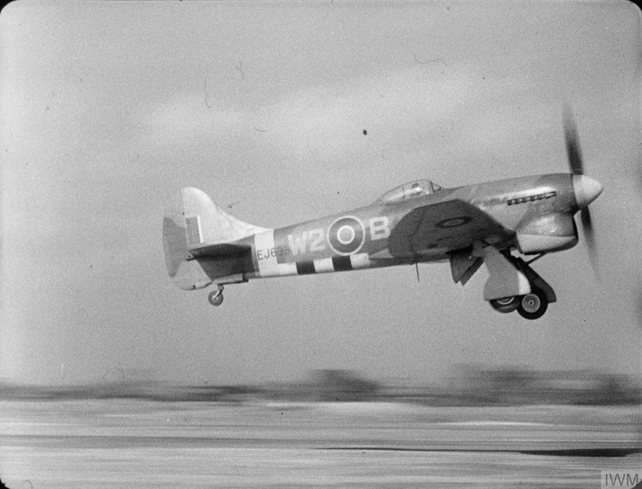 Royal Air Force- 2nd Tactical Air Force, 1943-1945. Hawker Tempest Mark V, EJ638 'W2-B', of No. 80 Squadron RAF, taking off from B80/Volkel, Holland.